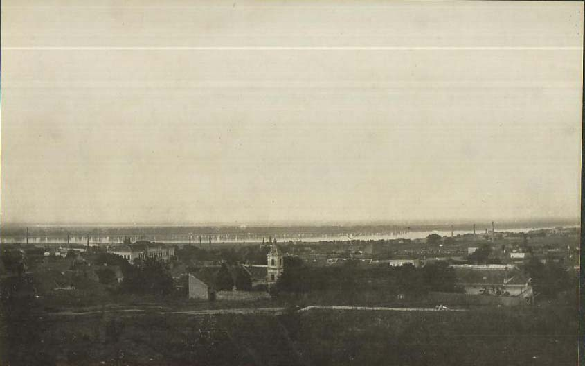 Belgrade factory district, 1919. Original caption FACTORY DISTRICT These views shew a portion of the manufacturing district on the N.E. portion of the town, the Danube shewing in the distance. Most of the factories seen are Brick Works and Saw Mills, and there is also a Wool Factory, a large Slaughter House and Sausage Factory, and, in another part of the town, a Match Factory. I ought to have said that these factories did exist; at the present moment the chimney shaft is practically all that remains. Viewed from a distance they appear practically intact, but, on close inspection, they are a mass of ruins, and in many instances one can hardly say the bare walls remain. Such as are standing would practically have to be rebuilt for carrying any s* or machinery, and it is almost needless to say th* a scrap of metal in any shape or form remains. * time of writing the only factory capable of worki* Brewery. Generally speaking, the Industrial pr* of Serbia has been very small, and in all the lar* for some years to come, there should be a good ma* all kinds of household and other personal and dom* commodities. It may be stated that in the count* peasant women spin, weave, and make nearly all th* necessary fot their clothes and household materia*